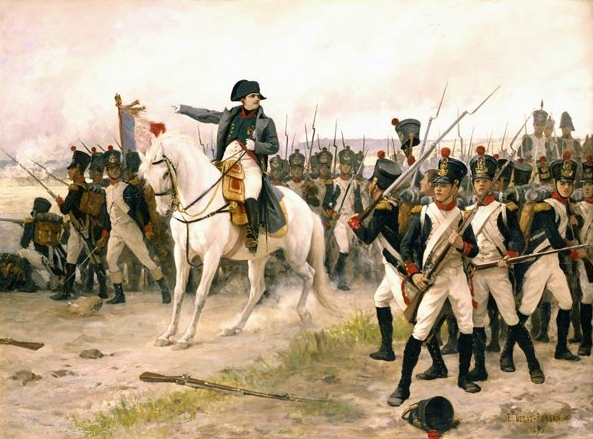 Napoleon at the battle of Friedland